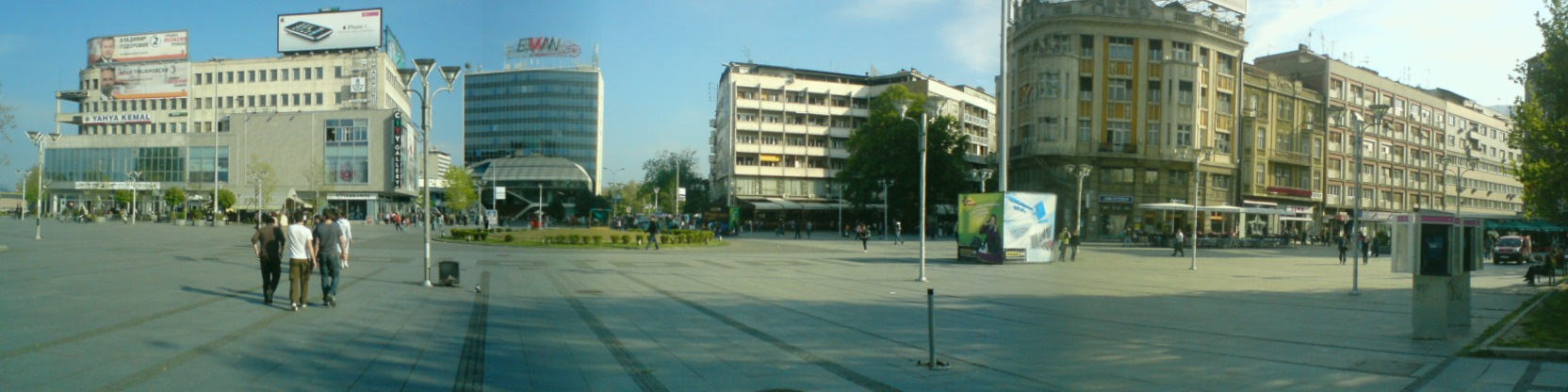 Panorama of Skopje's central square "Macedonia"